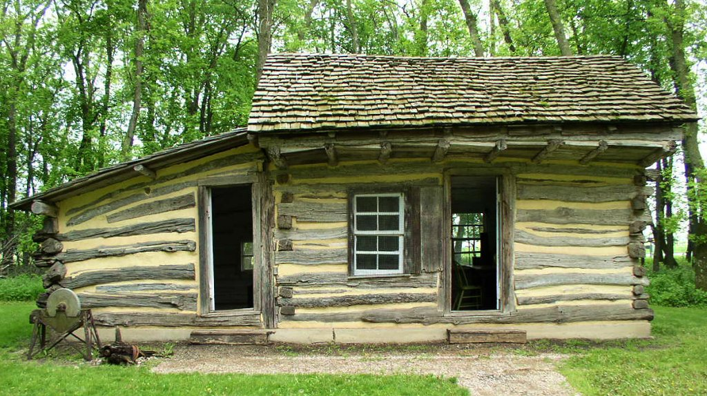 Koch Cabin, built by settlers Andreas and Christina Koch in 1859 on the northeast shore of Lake Shetek, Murray County, Minnesota, USA. Andreas and 14 others were killed in an attack during the Dakota War of 1862. The cabin has been moved from its original site into Lake Shetek State Park, onto the site of the contemporaneous Duley Cabin.